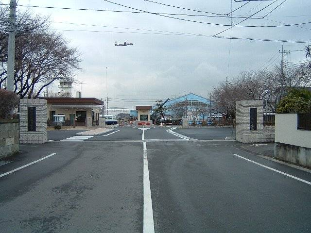 camp kita-utunomiya,JGSDF